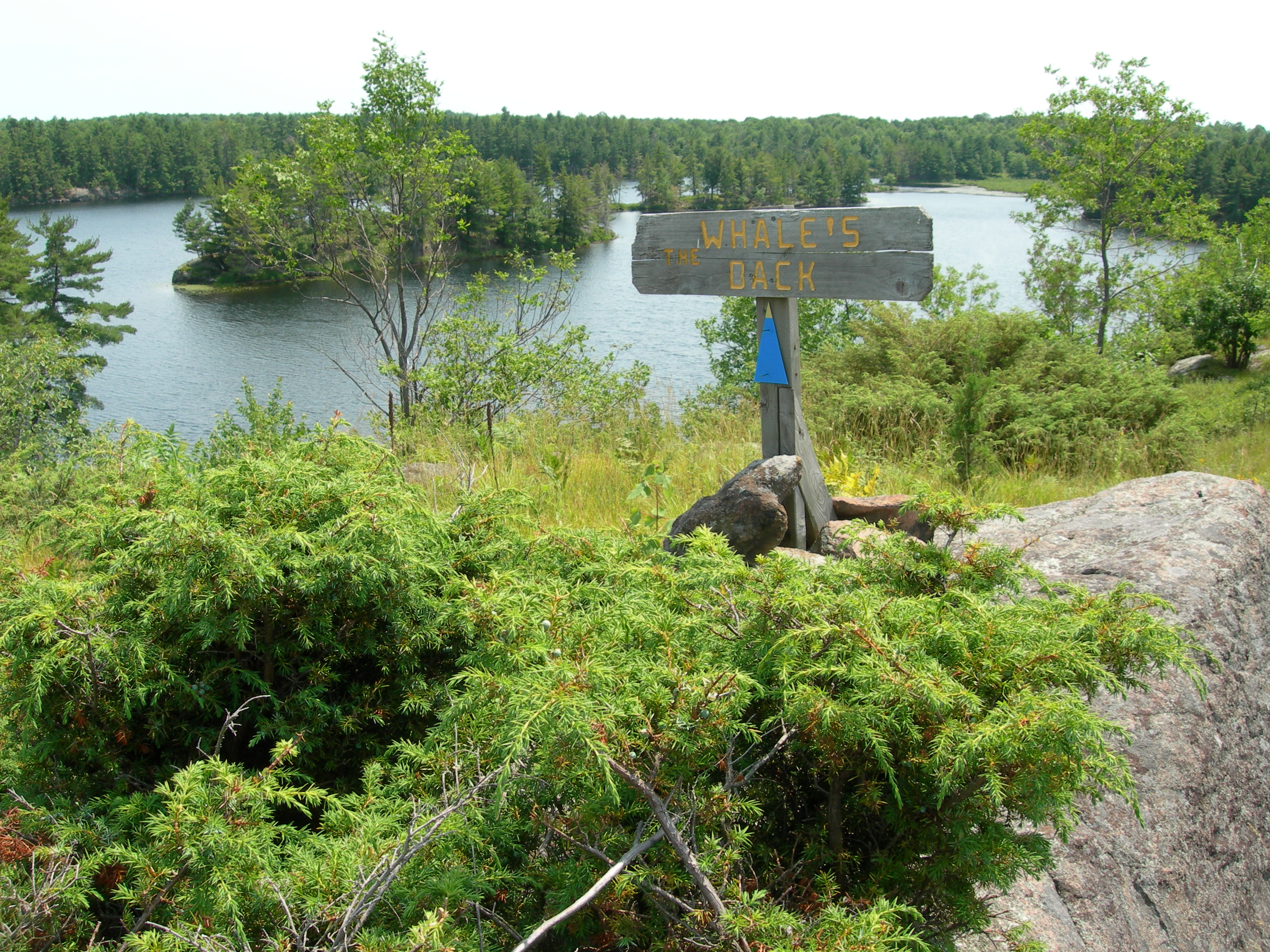 Whale's Back and Slide Lake, Frontenac Provincial Park, Ontario